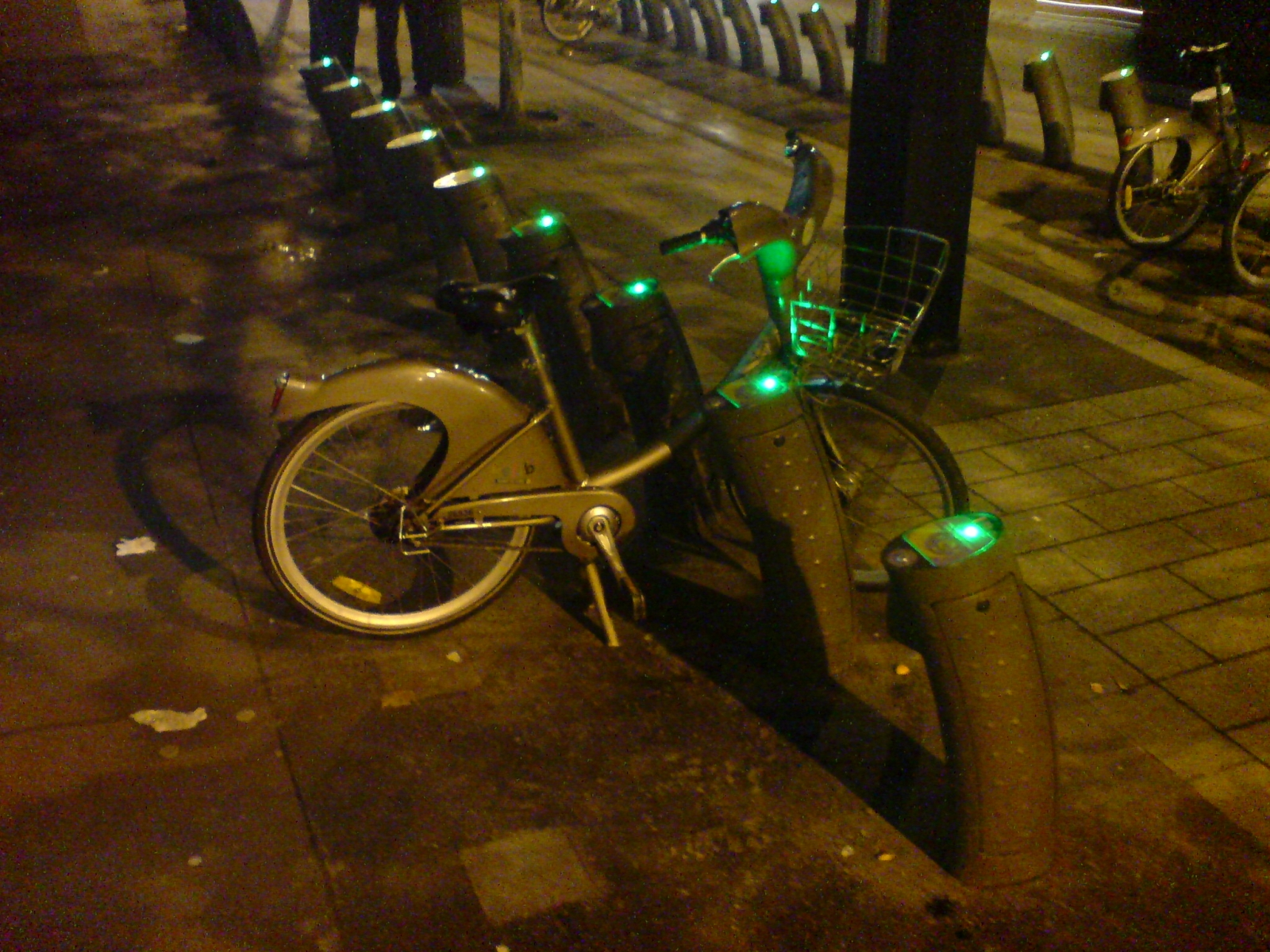 A sole remaining Vélib' bike at a stand in Paris, France.